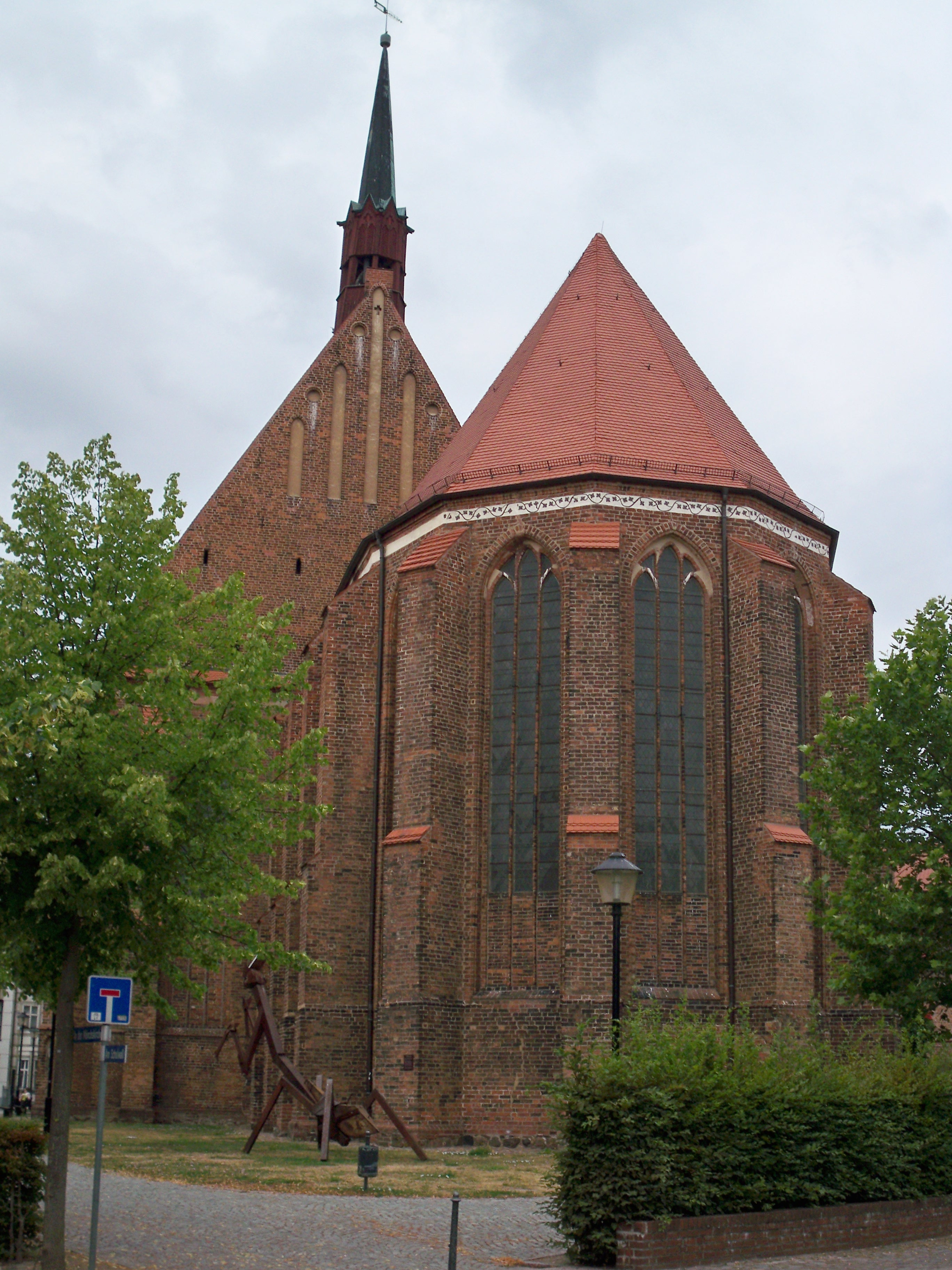 Mönchskirche Salzwedel with sculpture of praying mantis